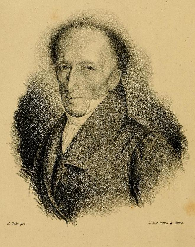 Portrait of Georg Heinrich Ludwig Nicolovius